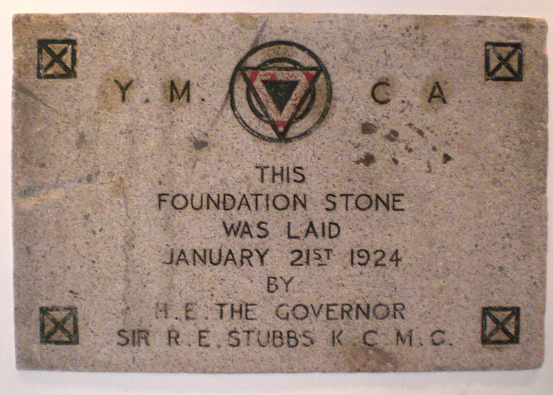 香港基督教青年會賓館 - Reginald Edward Stubbs